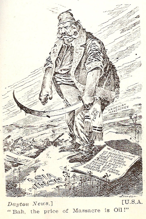 From Dayton Ohio Daily Newspaper, 1924, after the signing of the Treaty of Lausanne, which allowed the Turkish Republic to not bear the responsibility for the Armenian massacres in the Ottoman Empire.